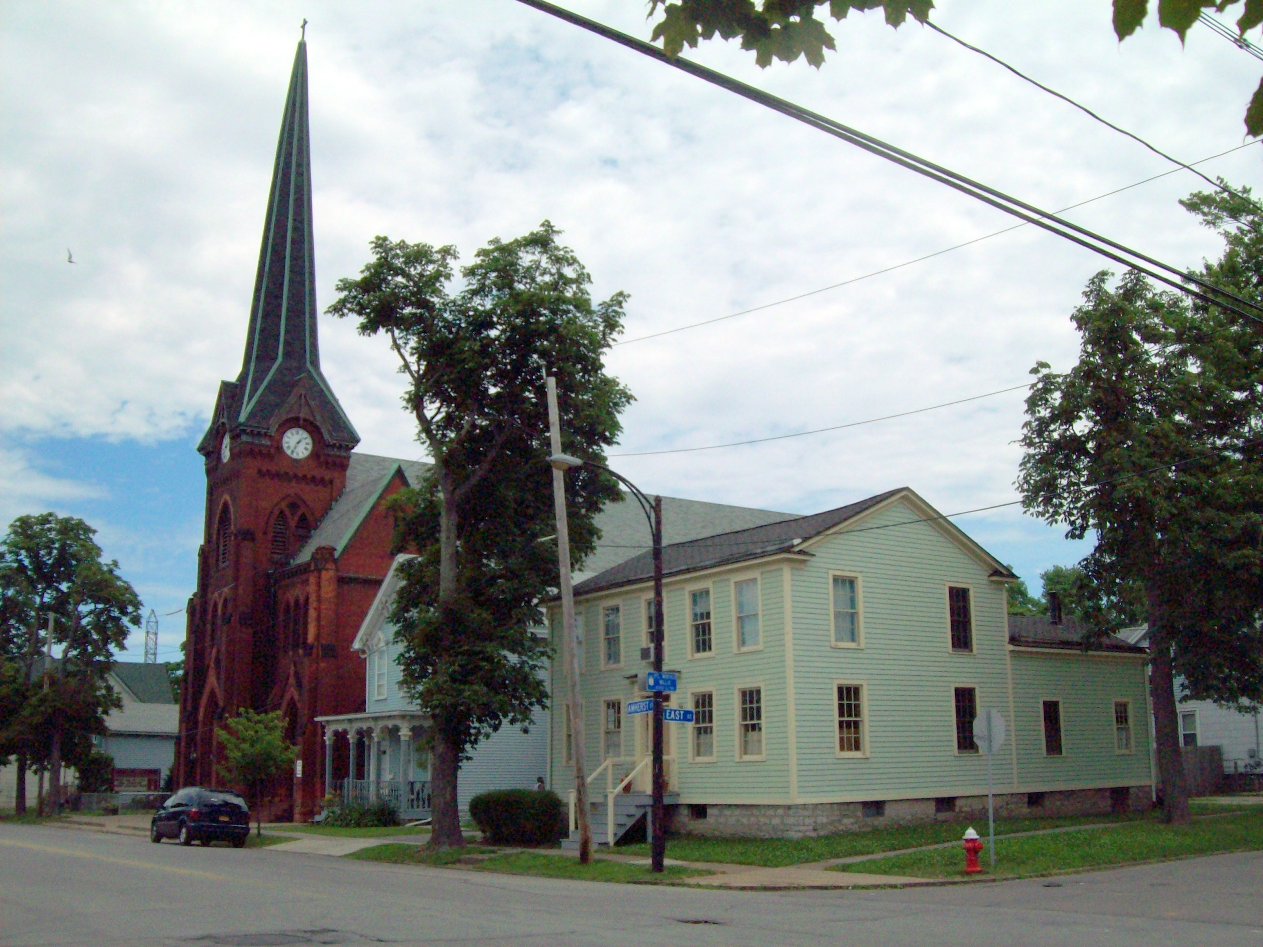 Market Square Historic District, Amherst St., Buffalo, NY July 2011